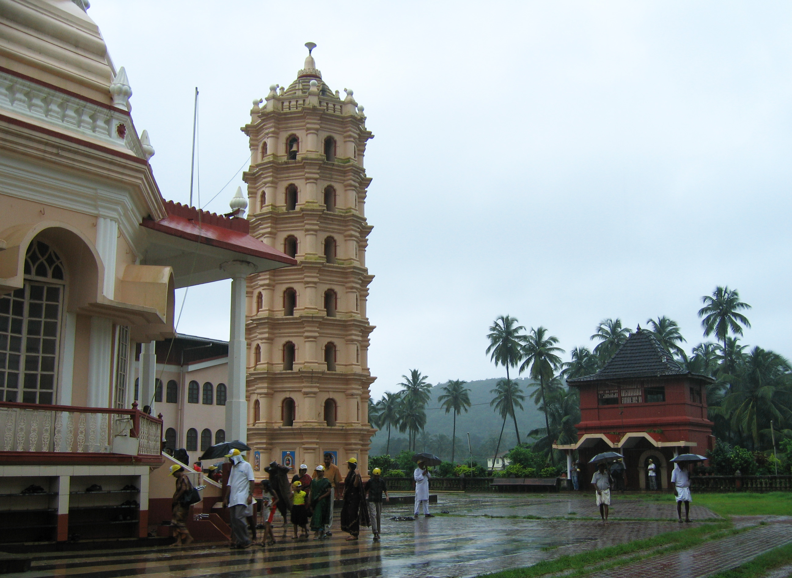 Goa - Shri Mangueshi temple